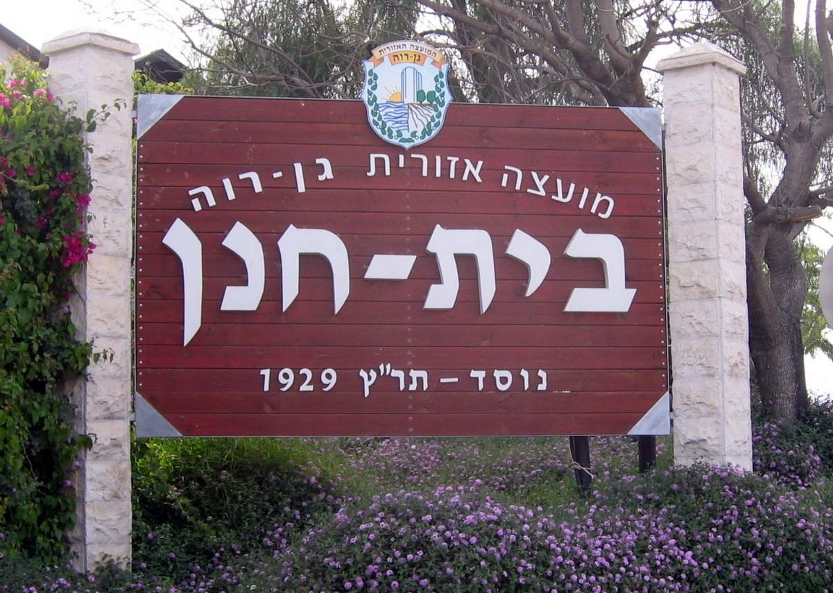 Sign at the entrance to Beit Chanan, a Moshav in Israel.